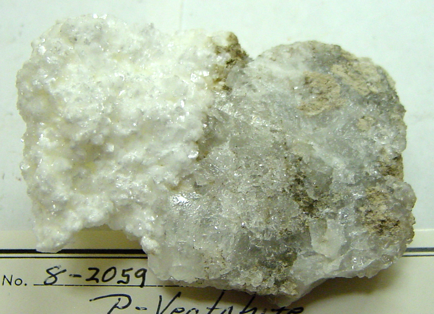 P-Veatchite. Collected from Billie Mine, Death Valley, Inyo County, California. Mineral collection of Bringham Young University Department of Geology, Provo, Utah. Photograph by Andrew Silver. BYU index 8- 2059. Image file